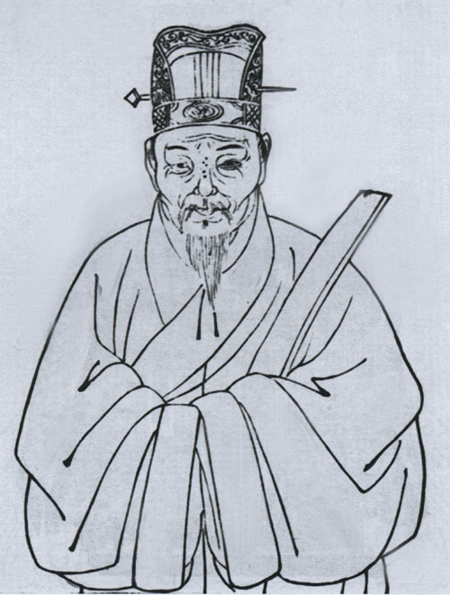 Gong Hong, minister of the Ming Dynasty.